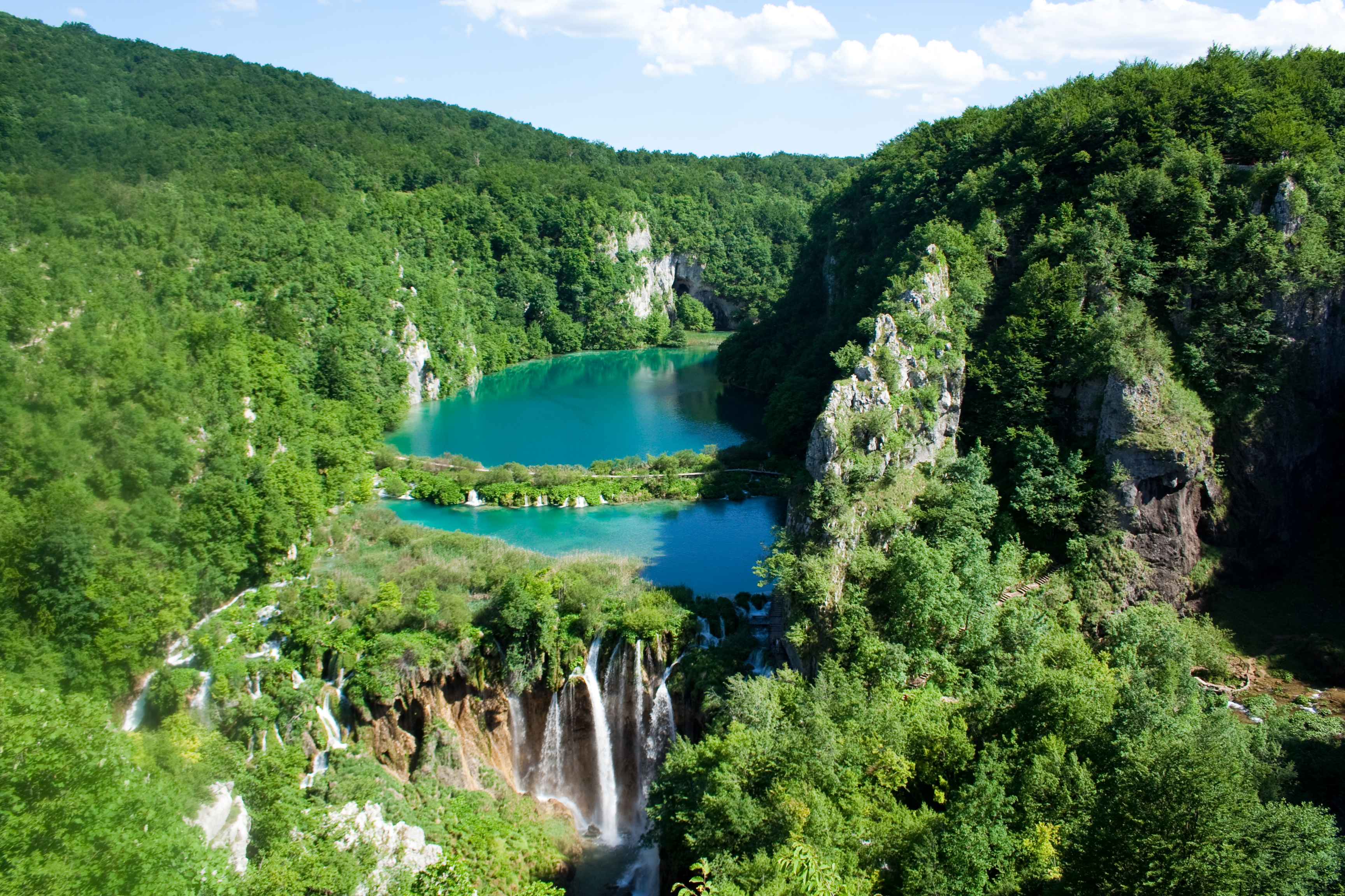 Plitvice Lakes National Park.